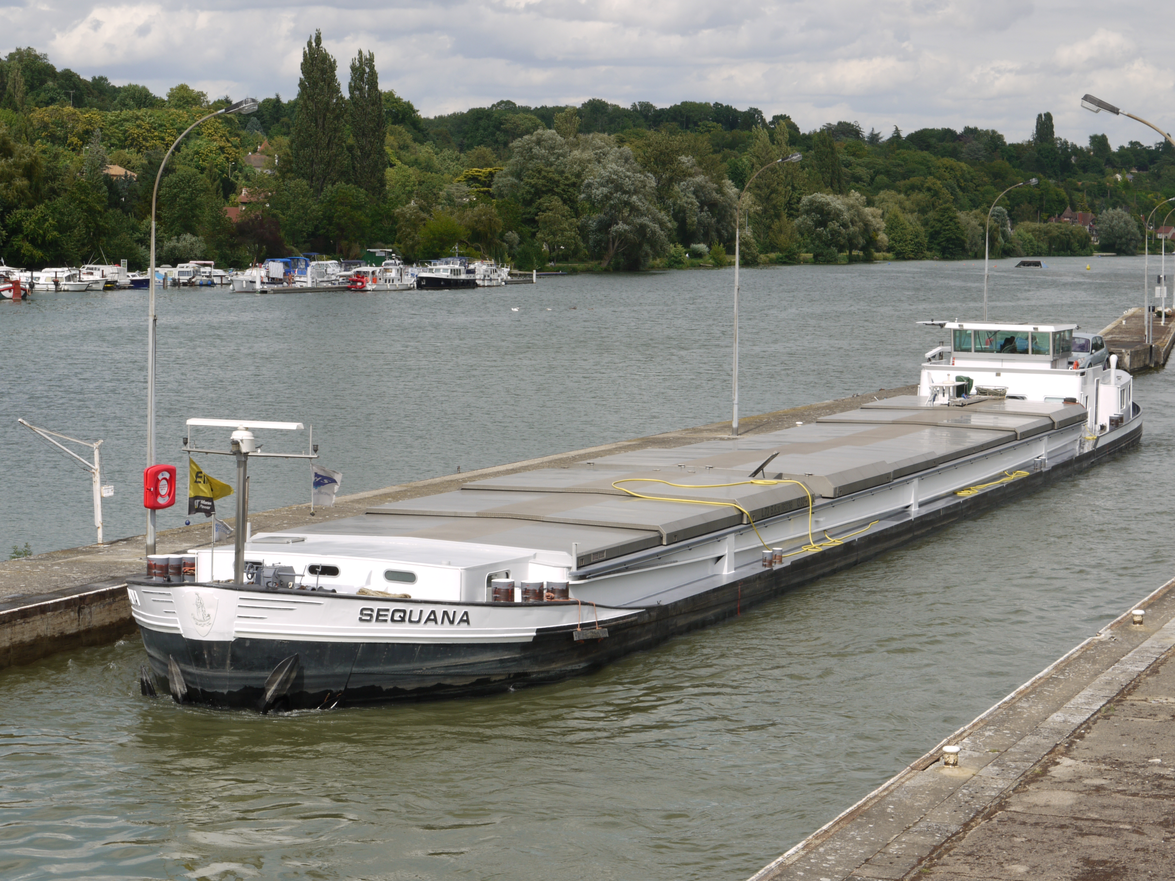 River lock of La Cave in Bois le Roi near Fontainebleau on the Seine river.